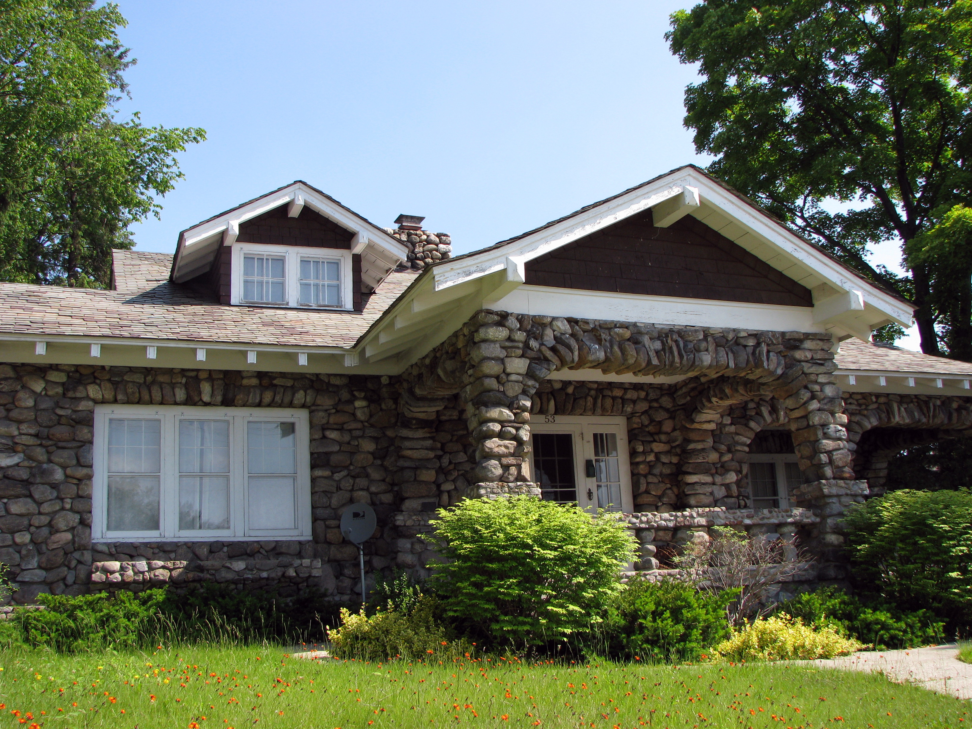 Clark House, 331 Montcalm Avenue, Ticonderoga, New York